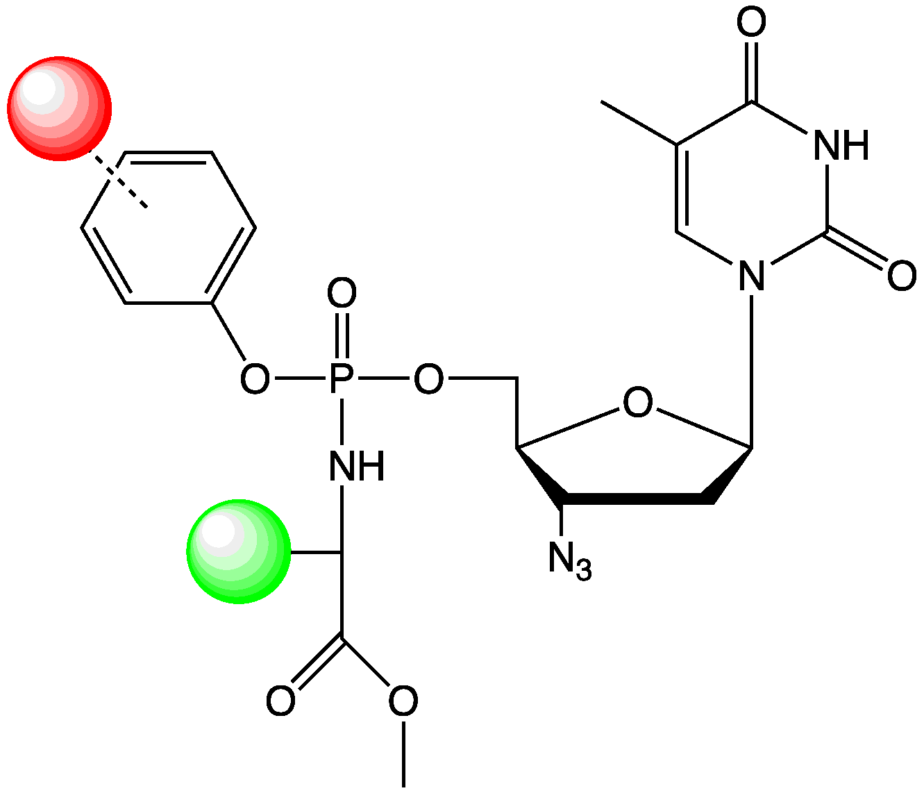 AZT protide representation